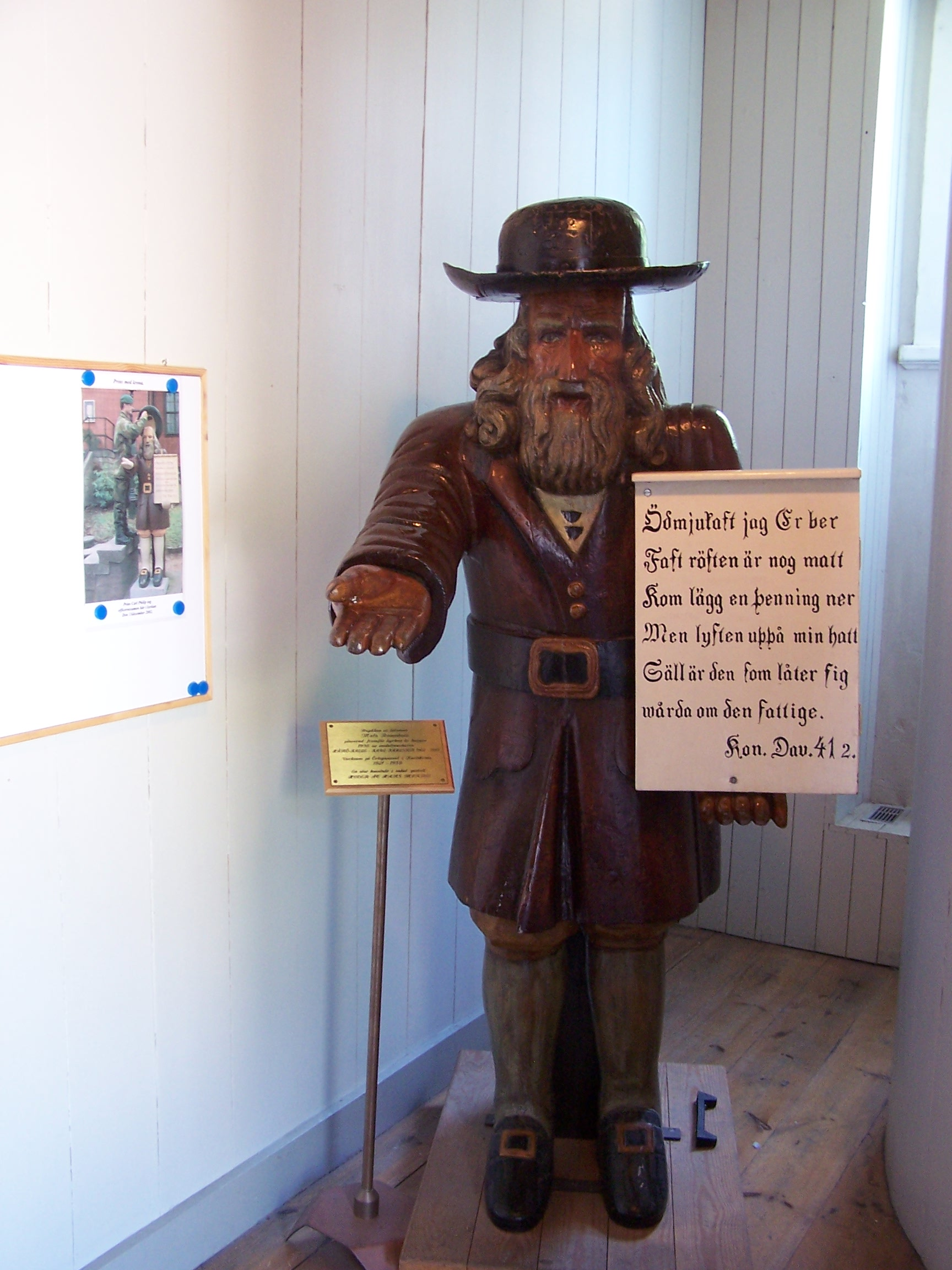 This is the original Rosenbom inside Amiralitetskyrkan in Karlskrona.